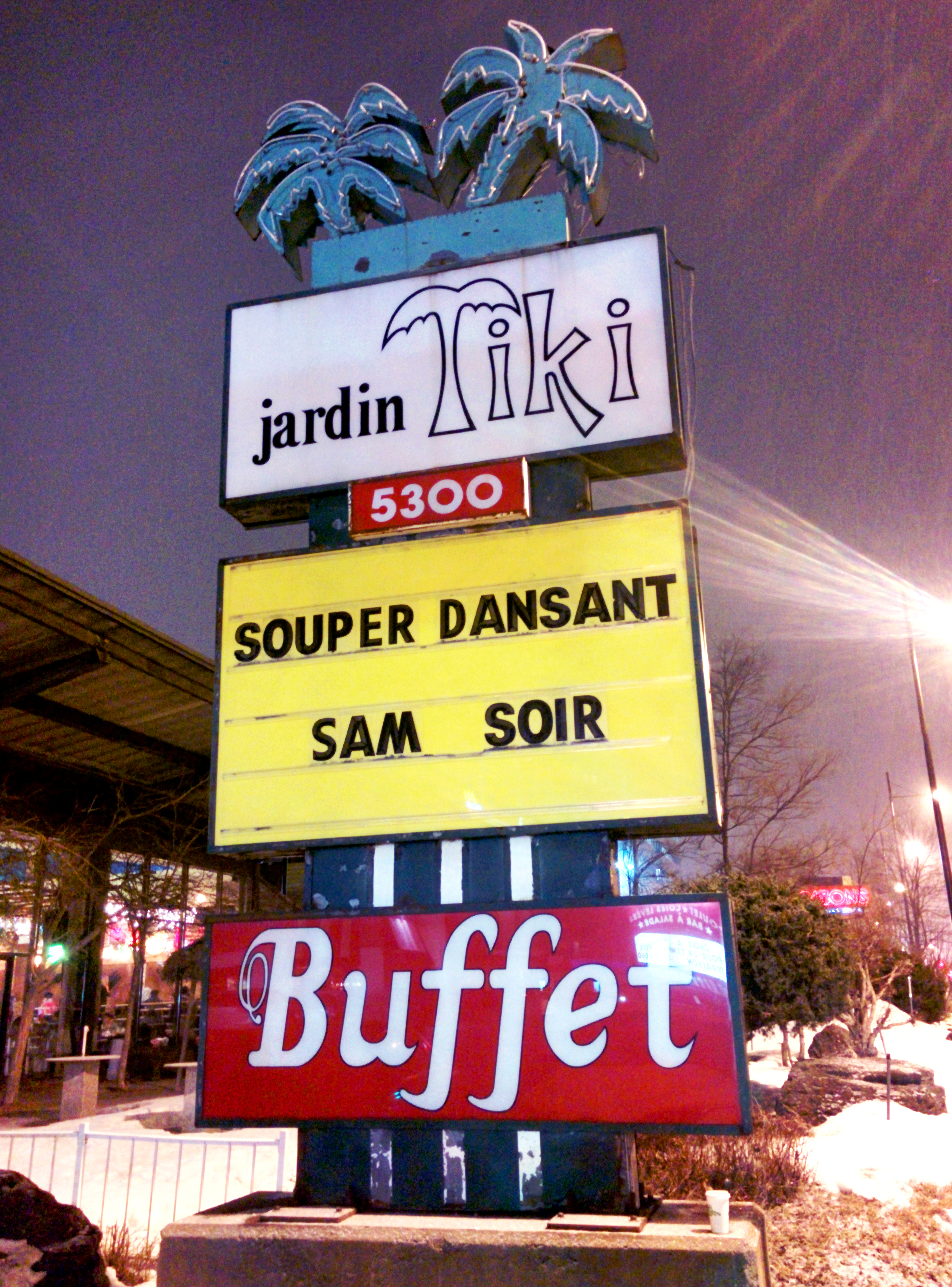 Marquee (sign) of Jardin Tiki, landmark restaurant in Montreal. Photo taken 13 March 2015.